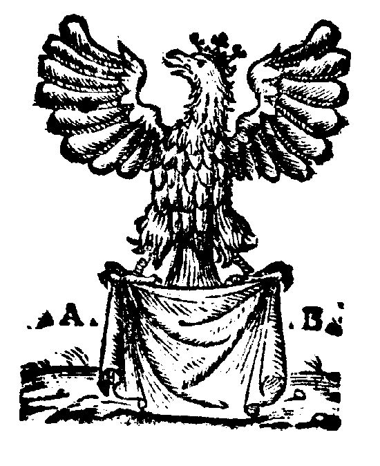 Blado's mark